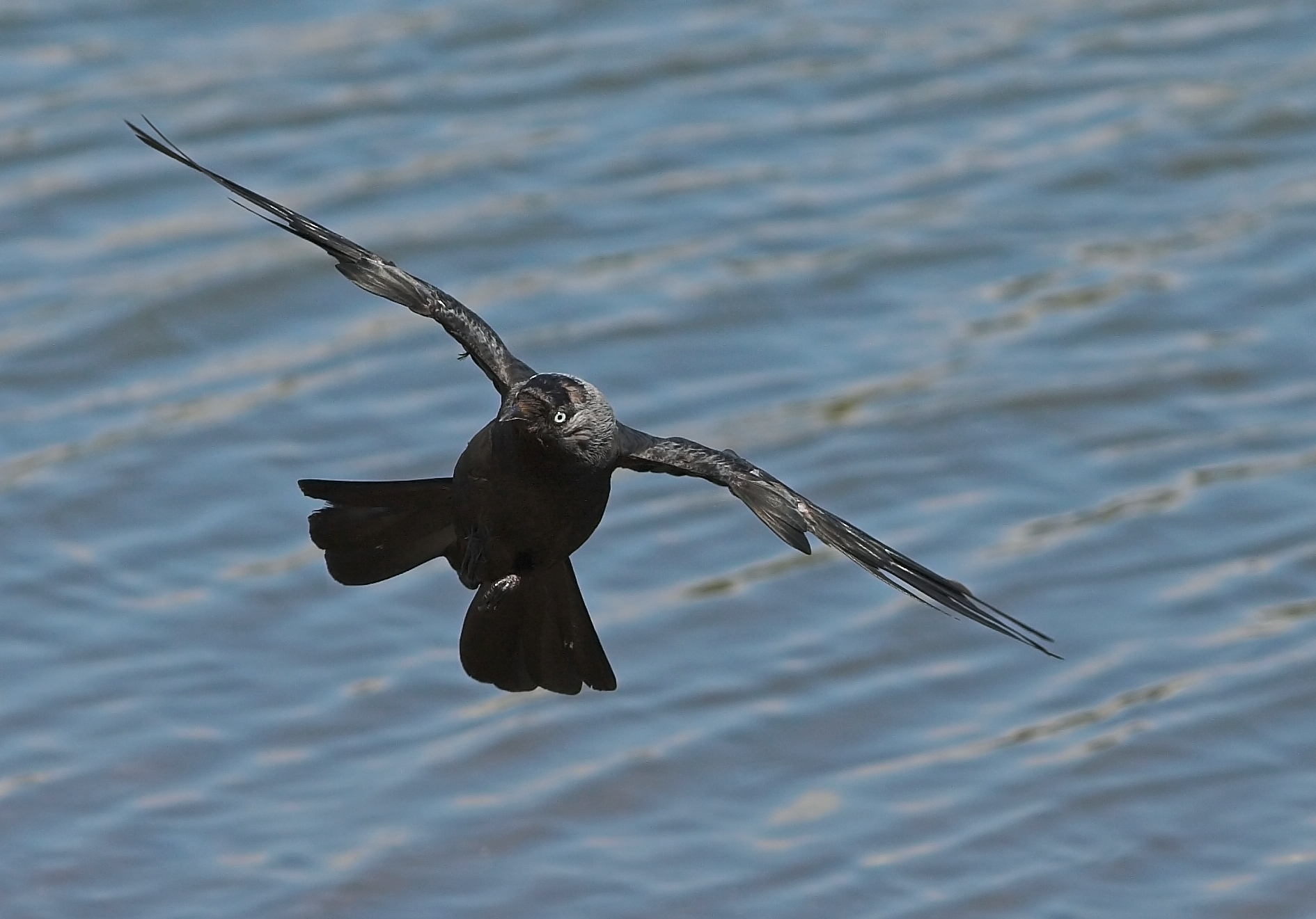 Jackdaw (Corvus monedula) in flight in Helsinki, Finland.